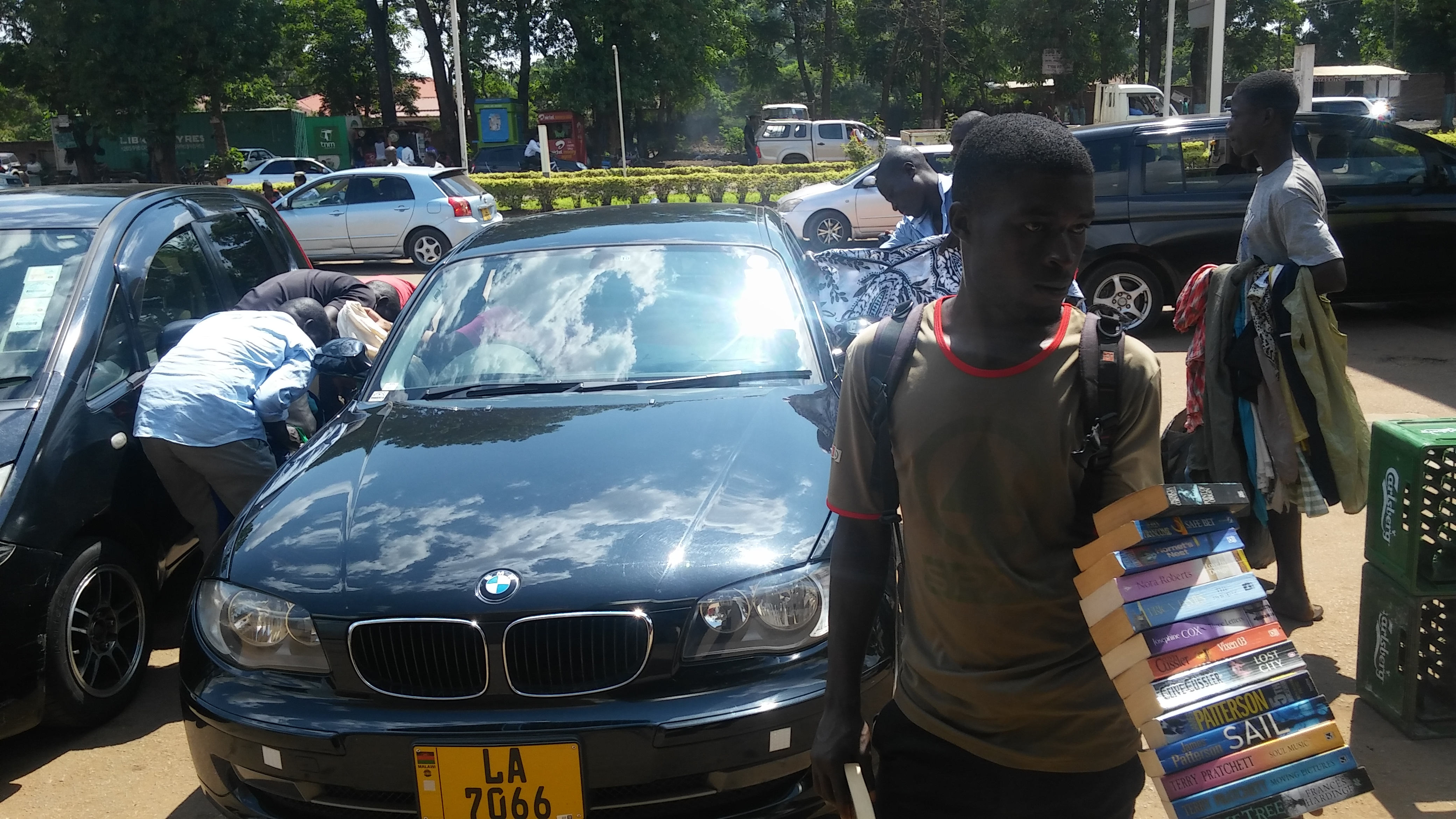 Taken in Lilongwe, Malawi showing peddlers selling goods to cars who stop This is an image of "African people at work" from Malawi